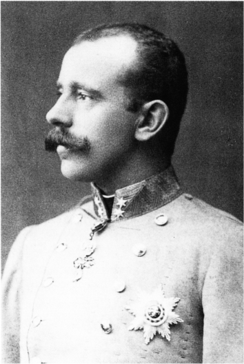 Crownprince Rudolf of Austria-Hungary